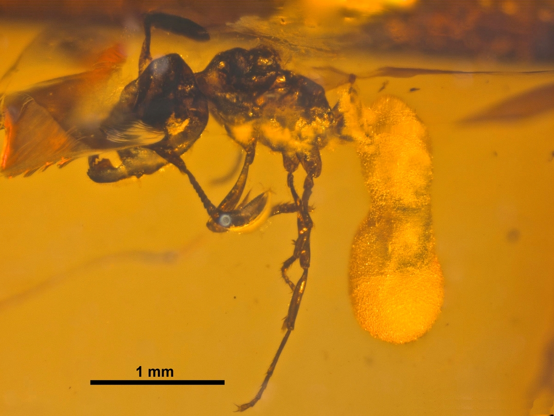 Profile view of Protopone primigena holotype queen in Sakhalin amber. Specimen number PIN3387-31